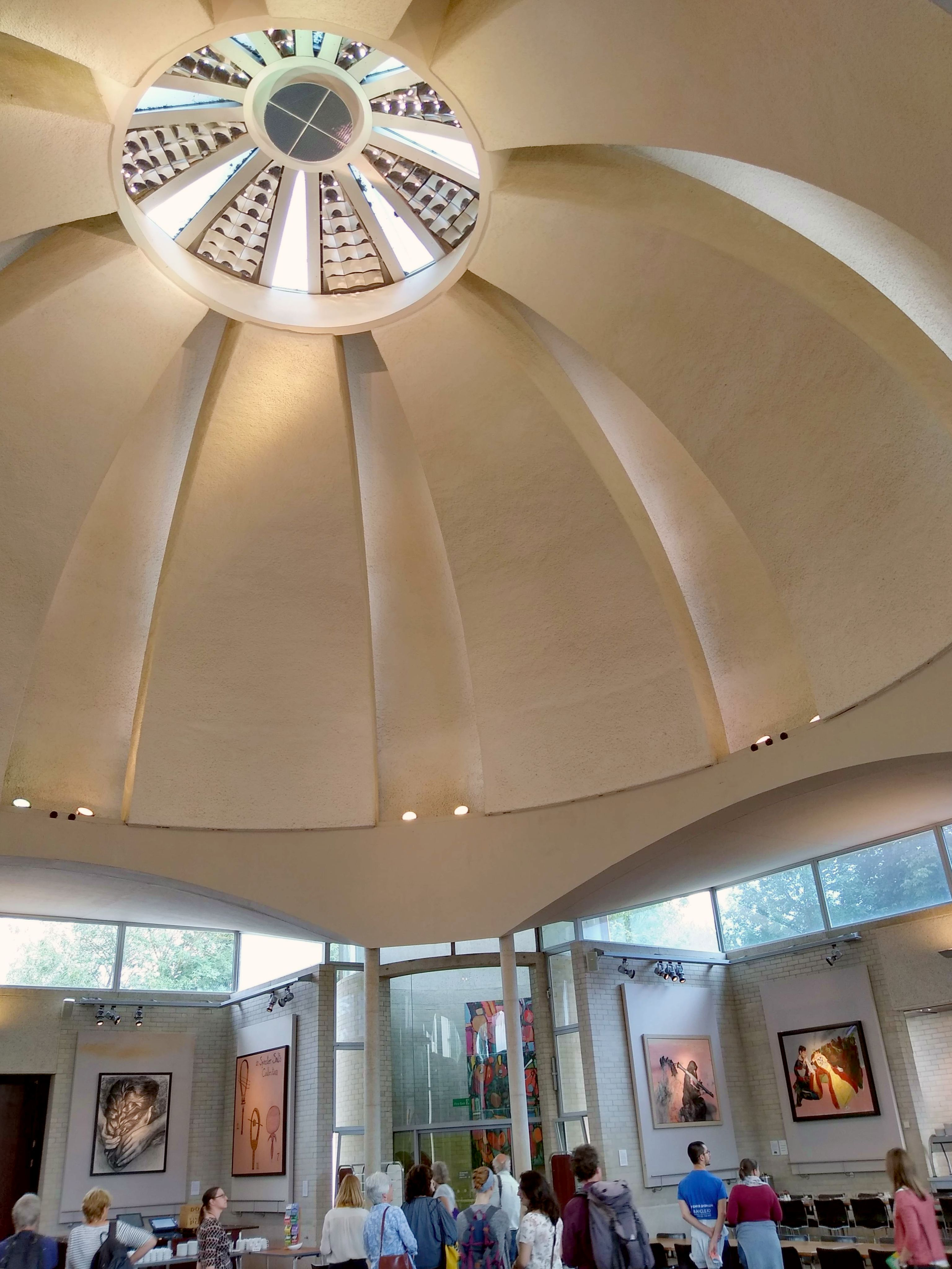 Dining hall of Murray Edwards College, Cambridge in July 2019.